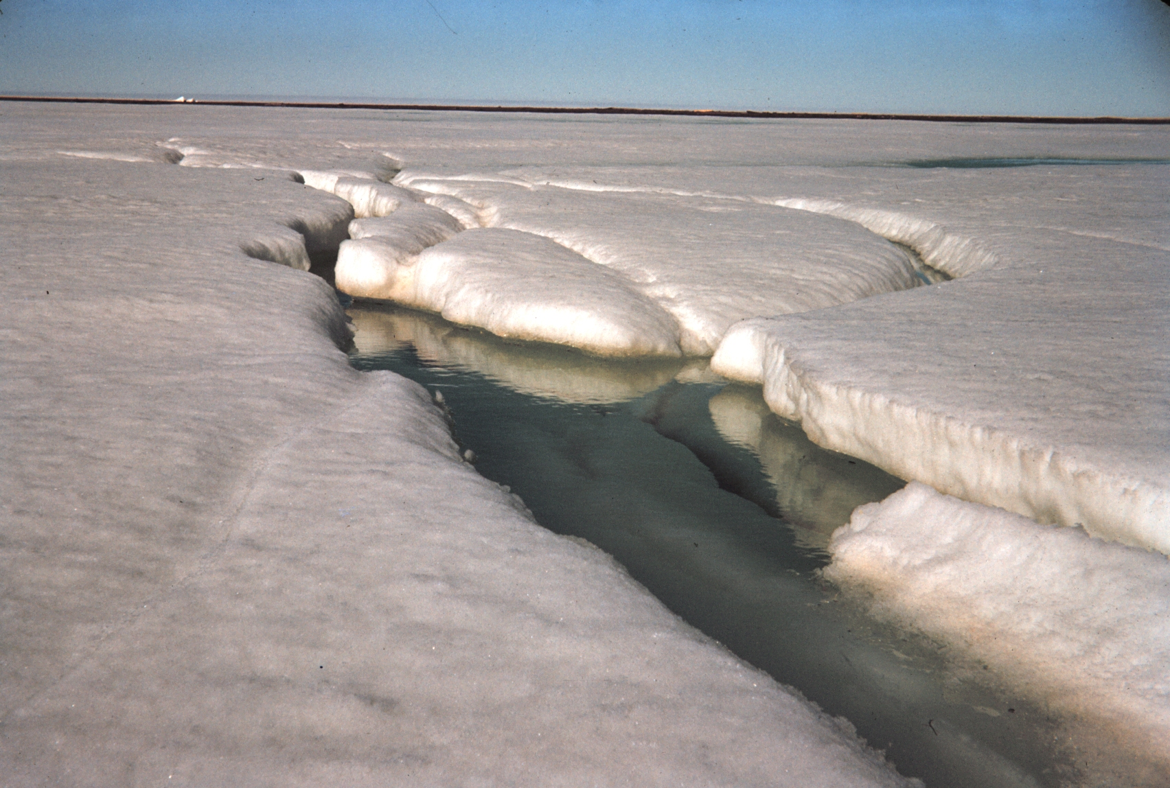 The first sign of the spring melt - a stream is seen flowing on the ice - Alaska, Tigvariak Island, North Slope